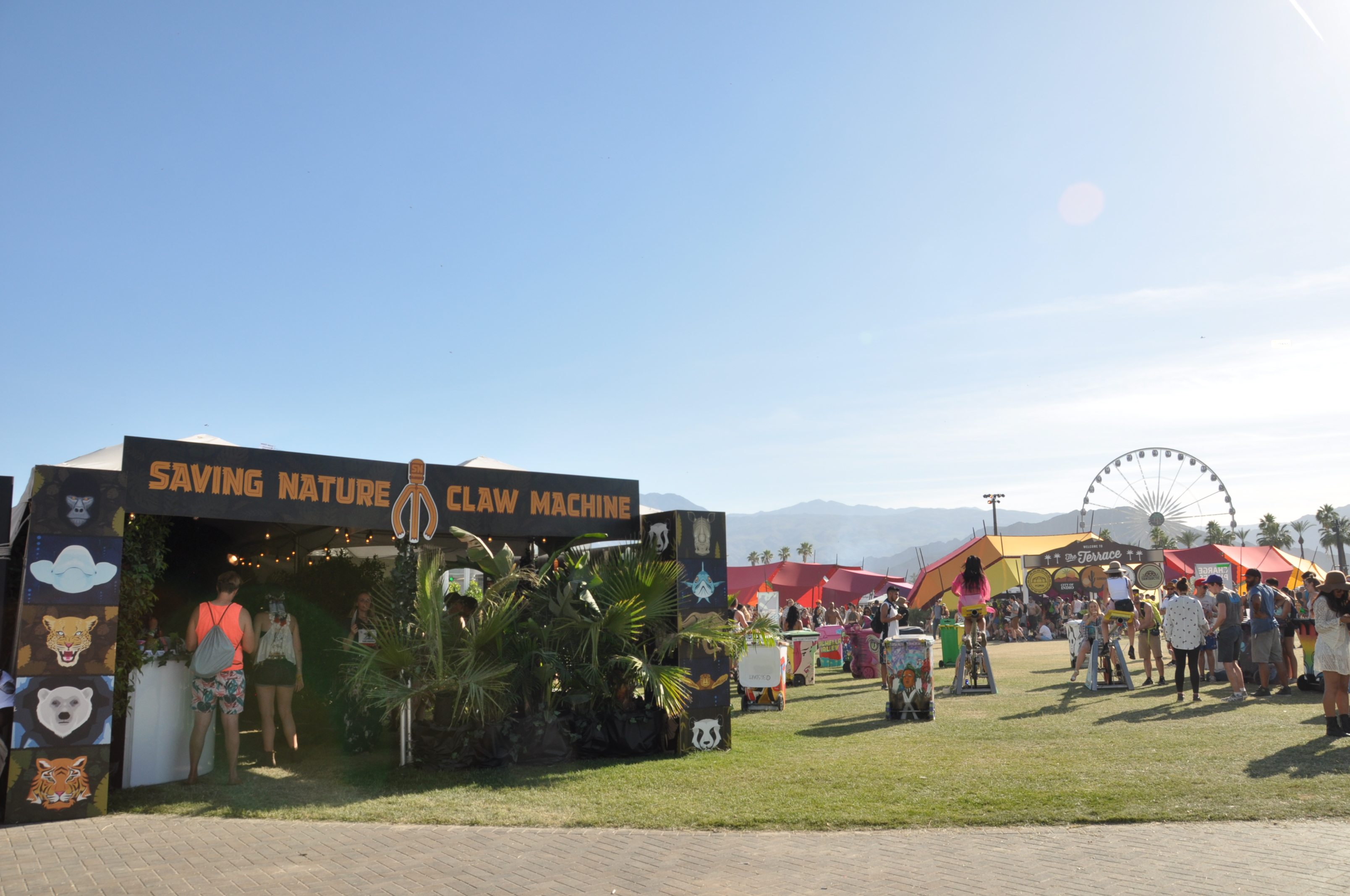 The Saving Nature Claw Machine at Coachella Music & Arts Festival in April of 2017